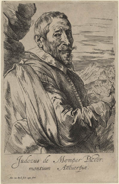 Joost de Momper the Younger